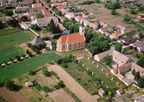 Lánycsók, Hungary, aerialphotography